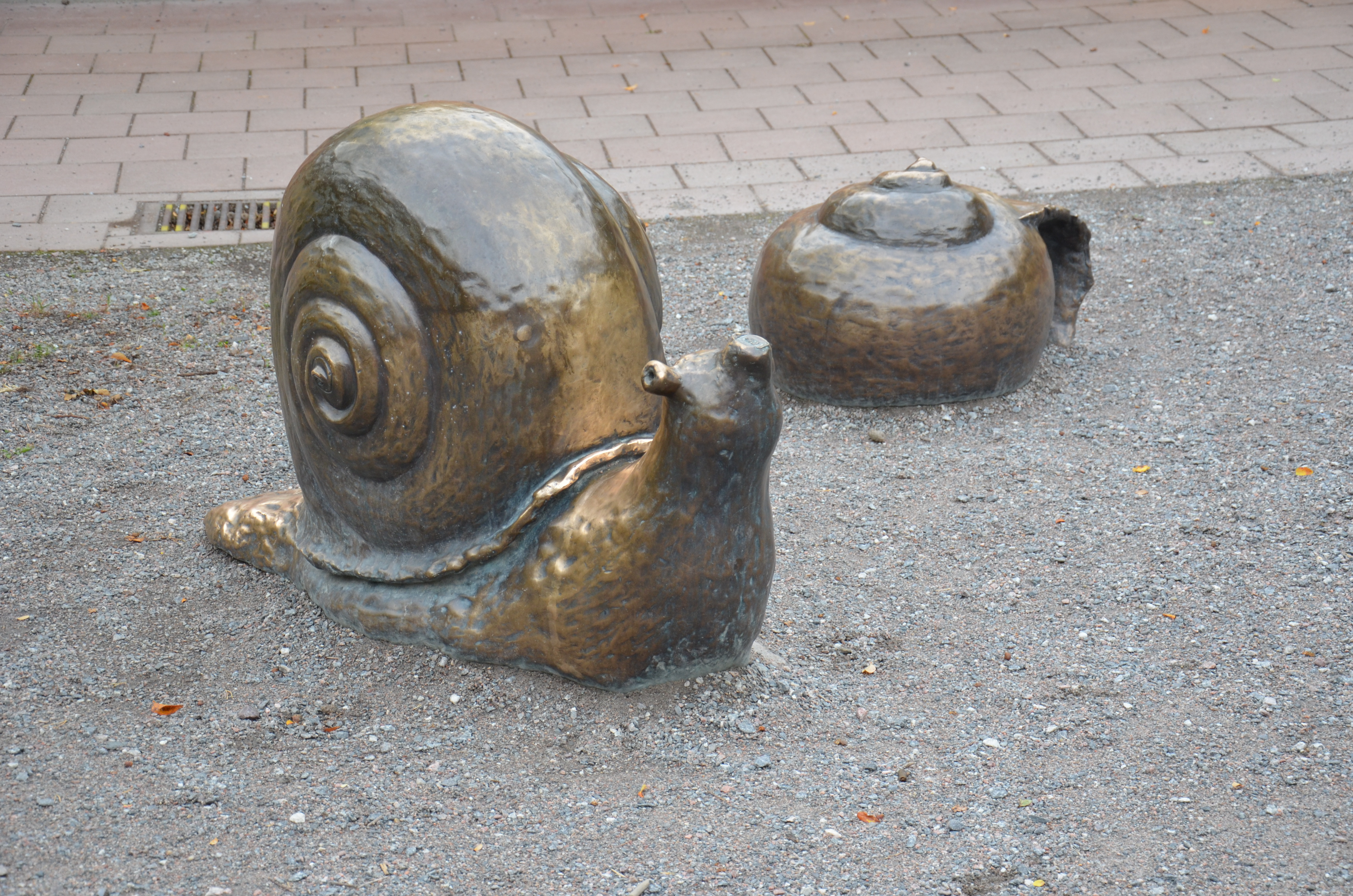 Birgitta Muhrs Snigel och skal vid ett äppelträd, Löttingelundsskolans gård i Täby kommun